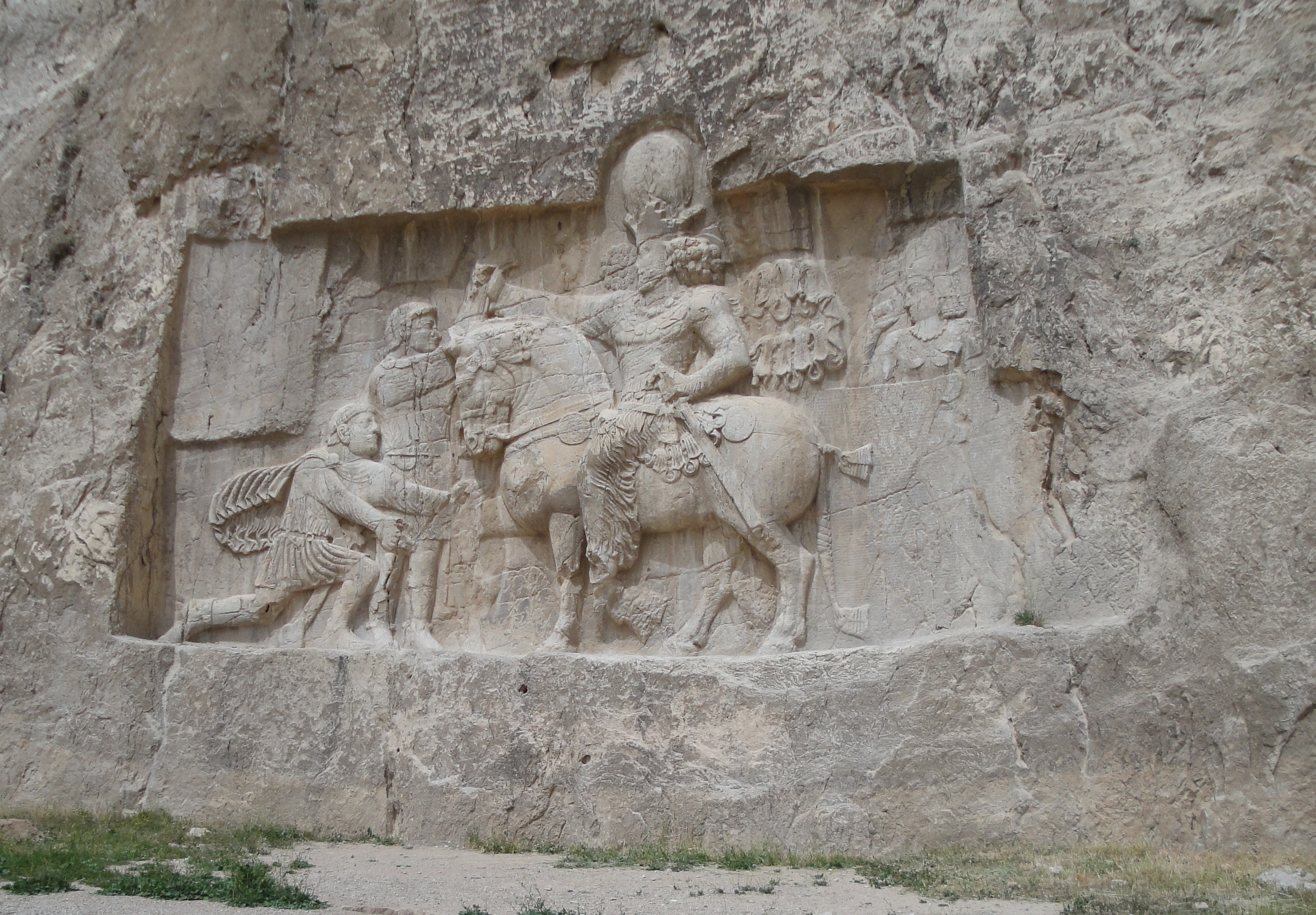 Rock-face relief at Naqsh-e Rustam of Persian emperor Shapur I